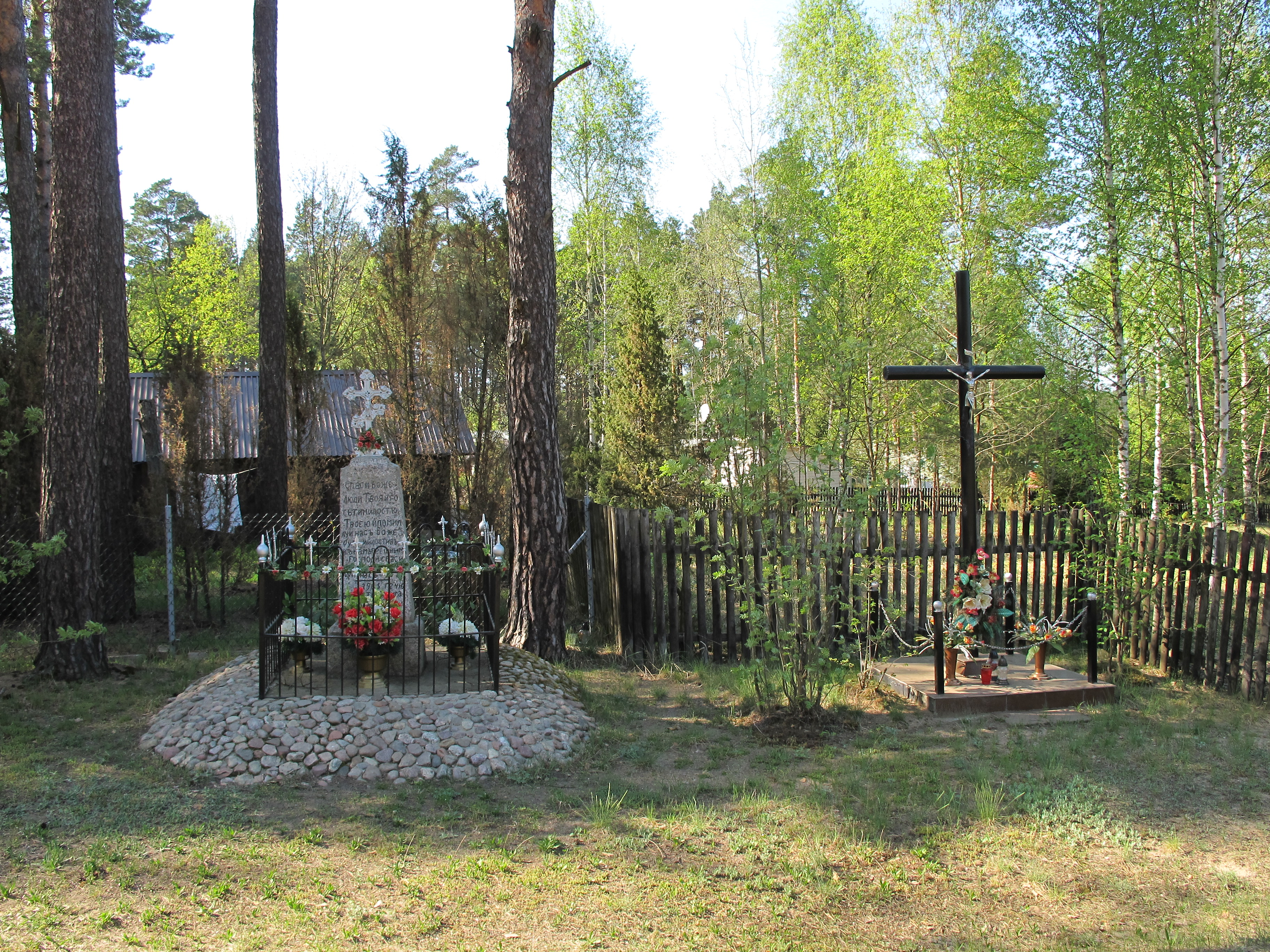 Crosses by an entrance to Grzybowce village, gmina Gródek, podlaskie, Poland